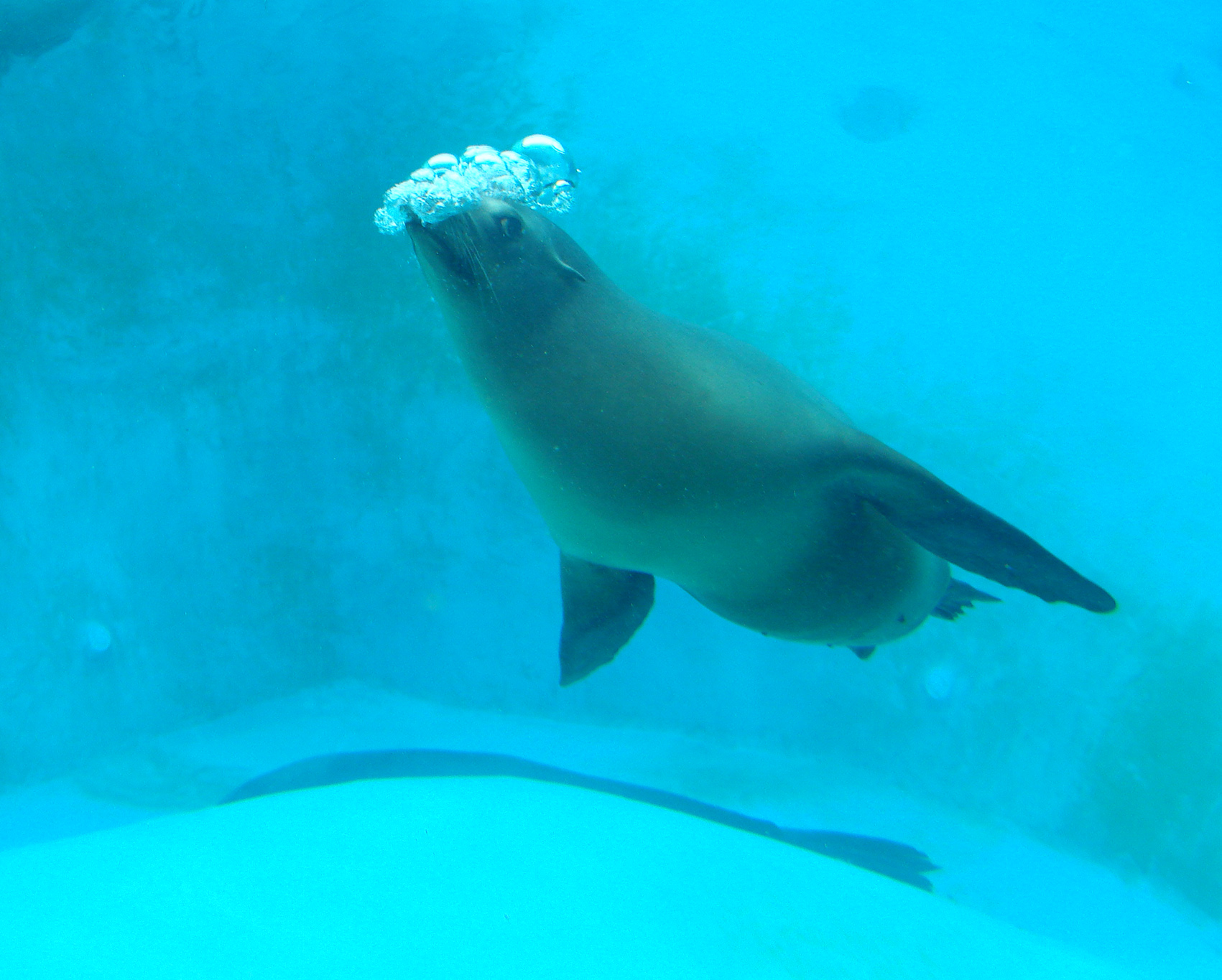 A sea lion (Zalophus californianus), zoo of Amnéville, France.